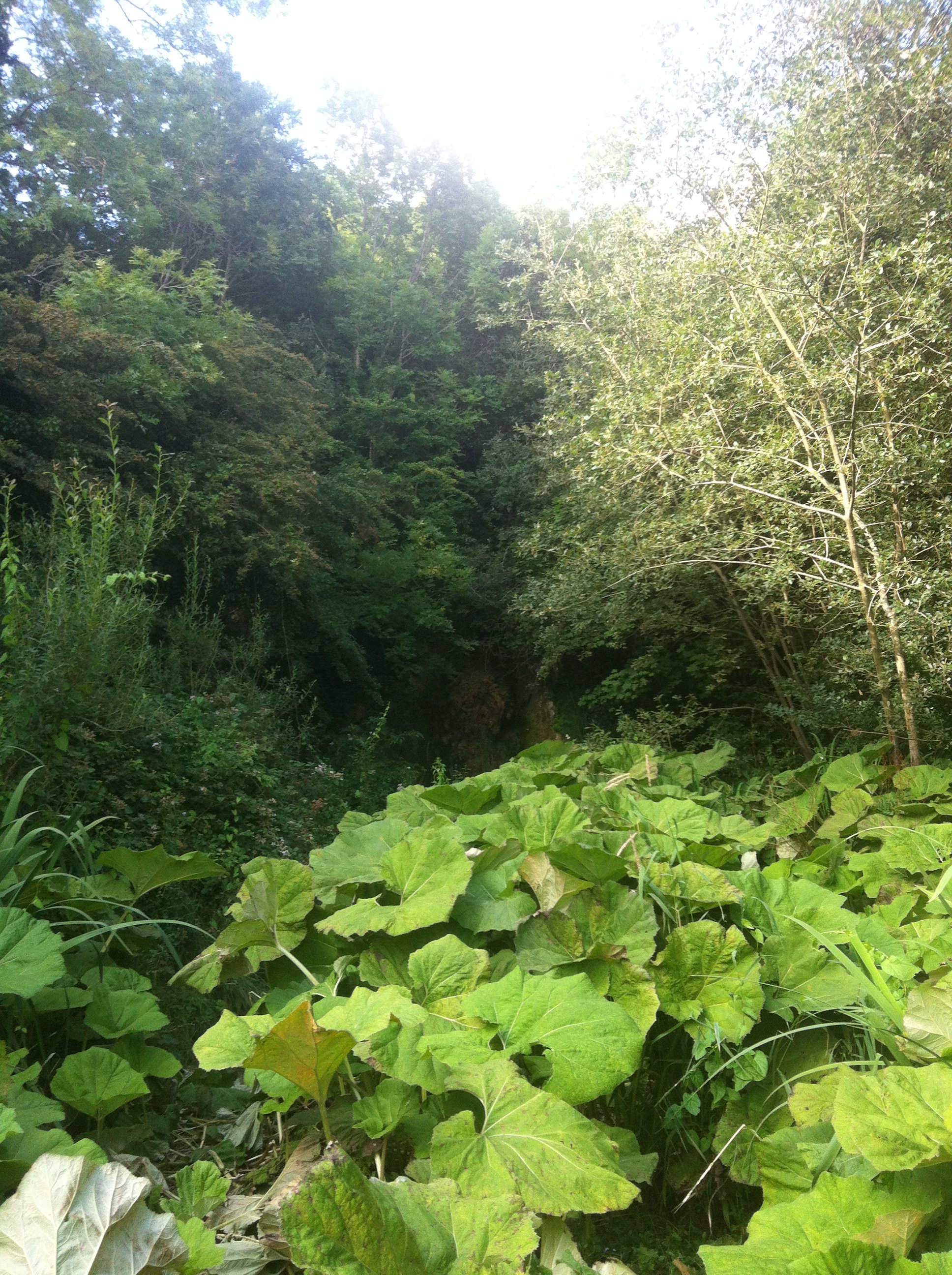 This is a photograph of the waterfall in Leixlip Spa, Kildare, Ireland